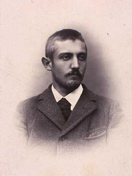 Ernesto Dalgas (1871-1899), Danish philosopher and writer